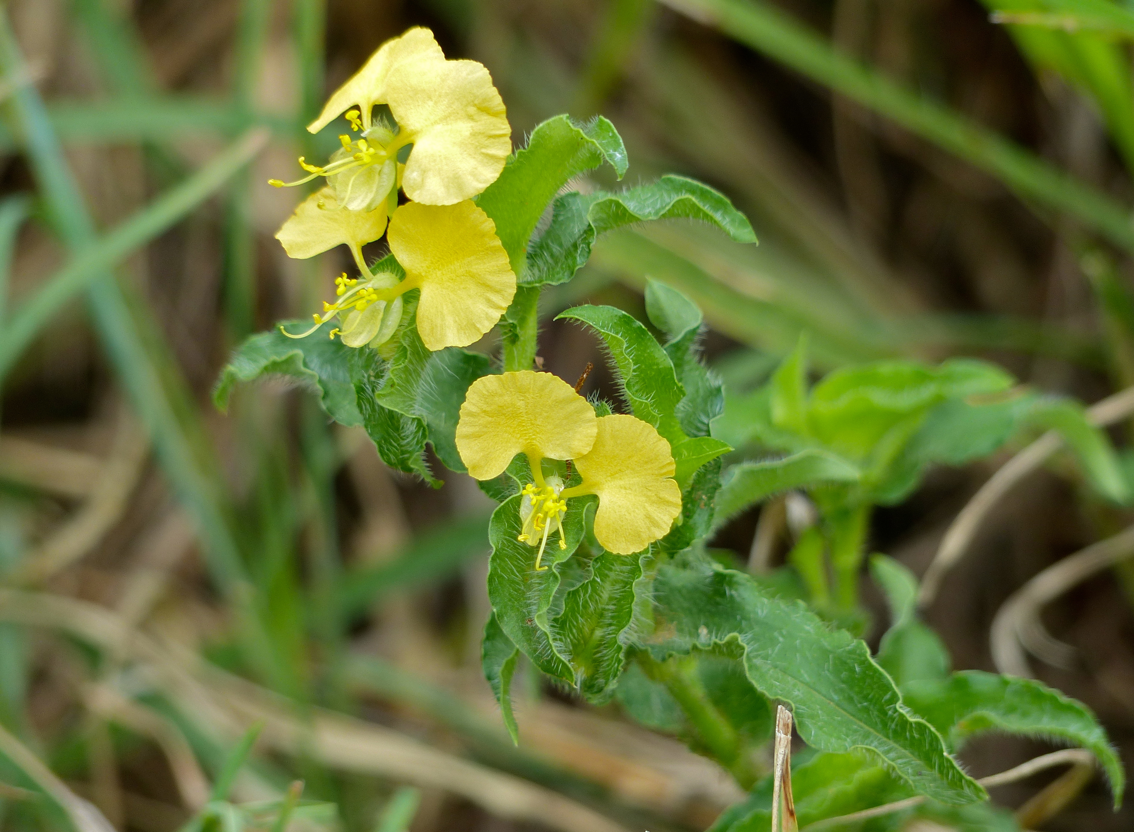 S130 Road South of Lower Sabie, Kruger NP, SOUTH AFRICA